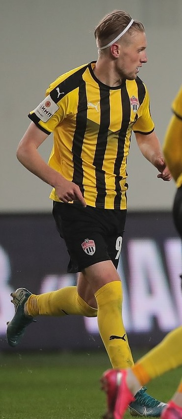 Aleksandr Smirnov with FC Khimki in a Russian Cup quarterfinal against FC Torpedo Moscow.